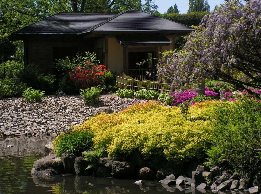 Tea pavilion in Japanese Garden in Wrocław, Poland.